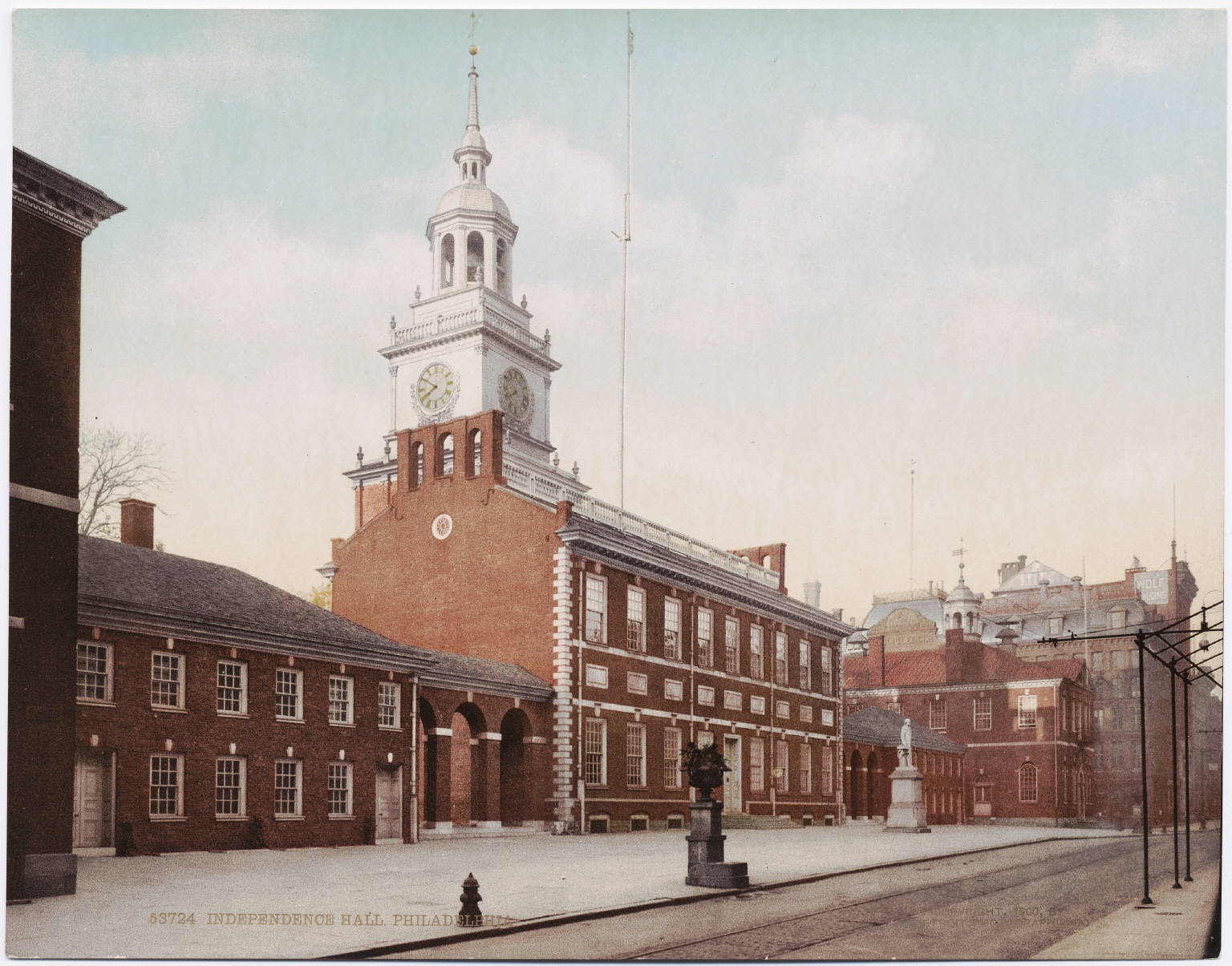 A photochrom postcard published by the Detroit Photographic Company.